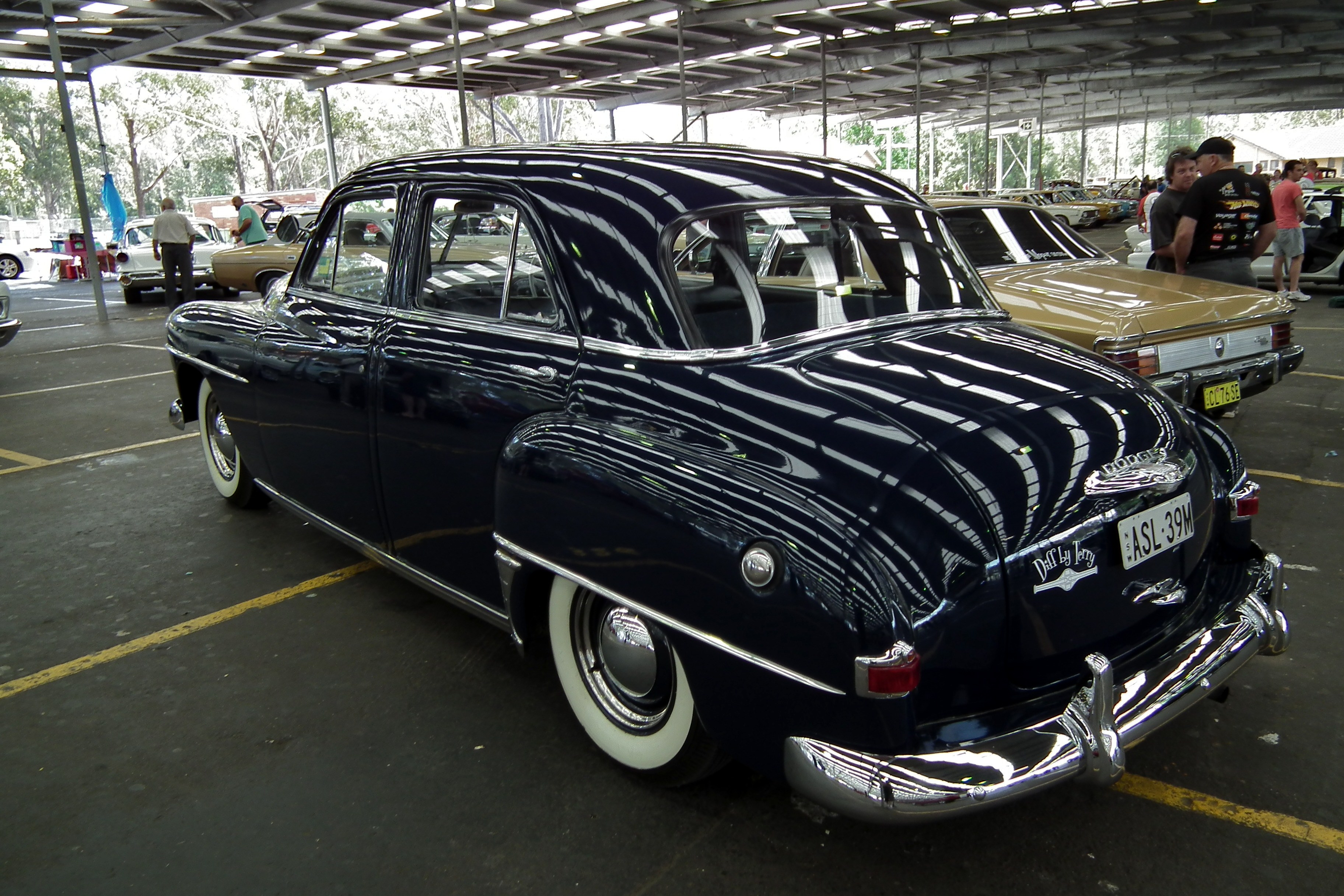 1952 Dodge D40 Kingsway Custom sedan. Australian assembled with mild period modifications, such as triple carbs, and hooded headlight surrounds from a 1956 model. Taken at the 2011 New South Wales All Chrysler Day, held at Fairfield Showground, Prairiewood, Sydney.